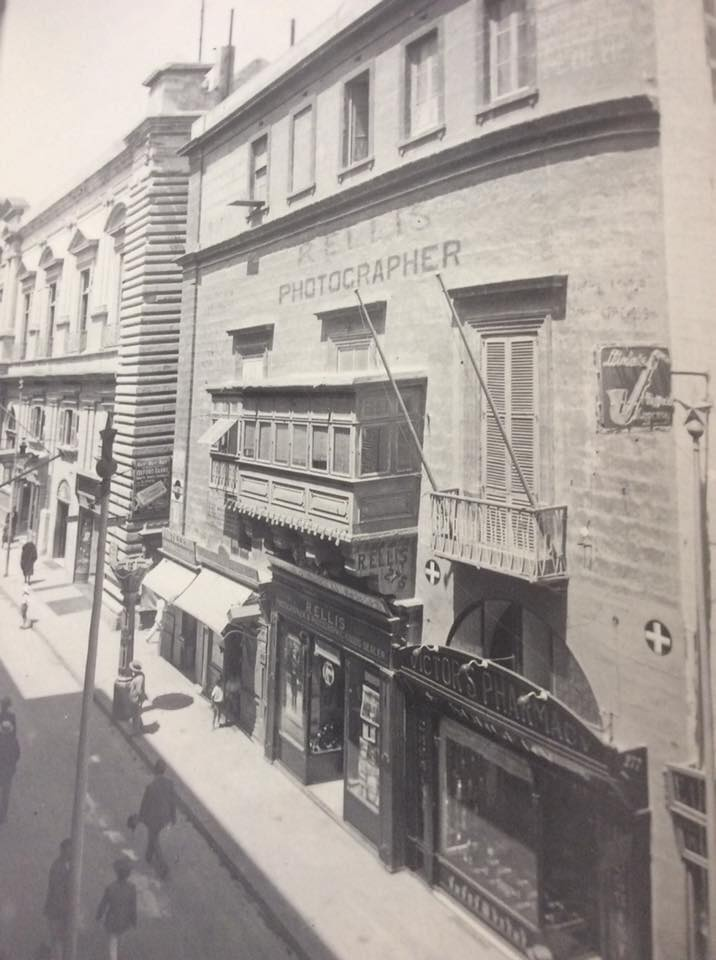 The Ellis Studio on Kingsway (Republic Street) in the late 19th century. Richard Ellis - The father of Malta in photos. Acknowledgement Richard Ellis Malta -Portrait of an Era 1860-1940. Edited by Ian Ellis. Published by Book Distributors Ltd 2014 MVH